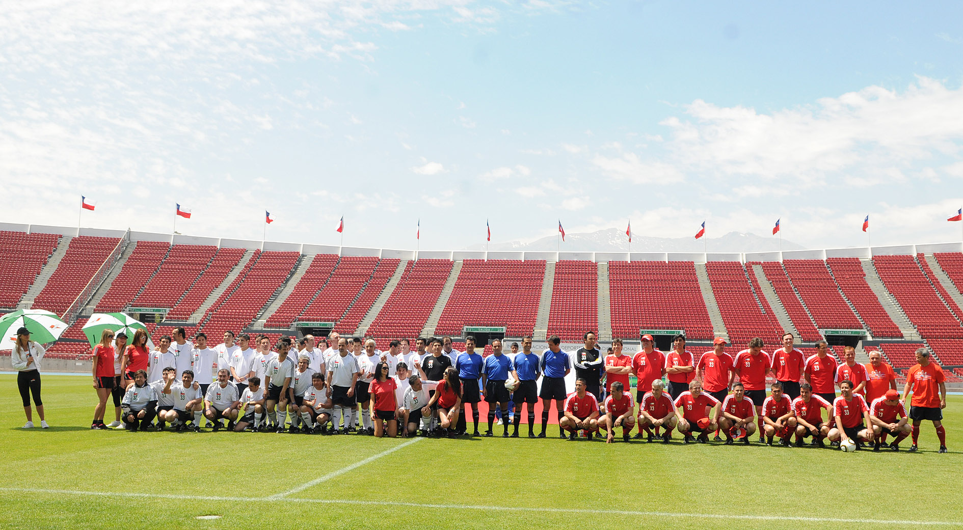 Los 33 miners pose for a photo with the opposing team of rescuers at a soccer game held in their honor at the National Stadium 24 October 2010.